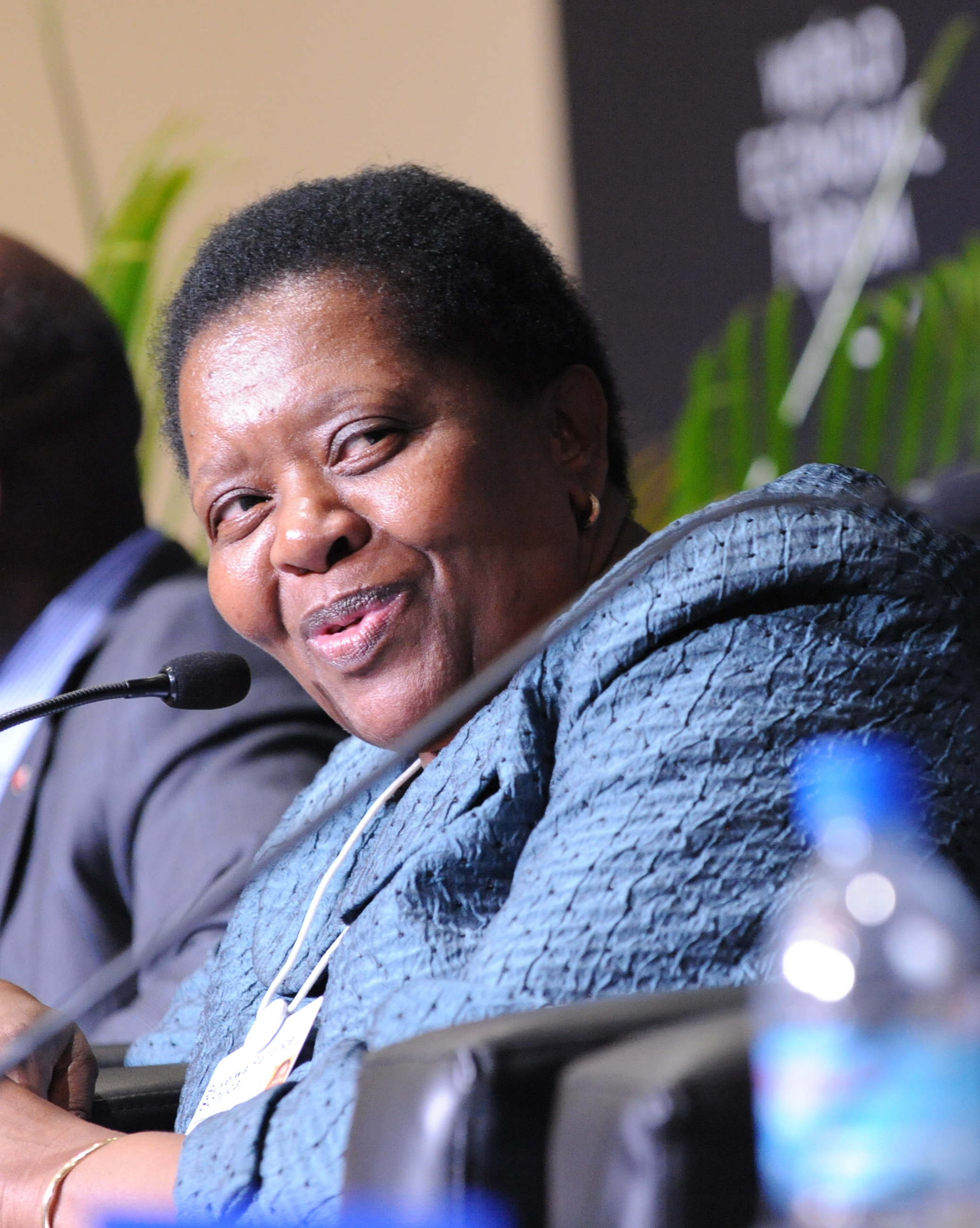 DAR ES SALAAM/TANZANIA, 6MAY10 - Buyelwa Patience Sonjica (Minister of Water and Environmental Affairs of South Africa) at the World Economic Forum on Africa held in Dar es Salaam, Tanzania, May 6, 2010. Copyright World Economic Forum ( by Zahur Ramji / Mediapix